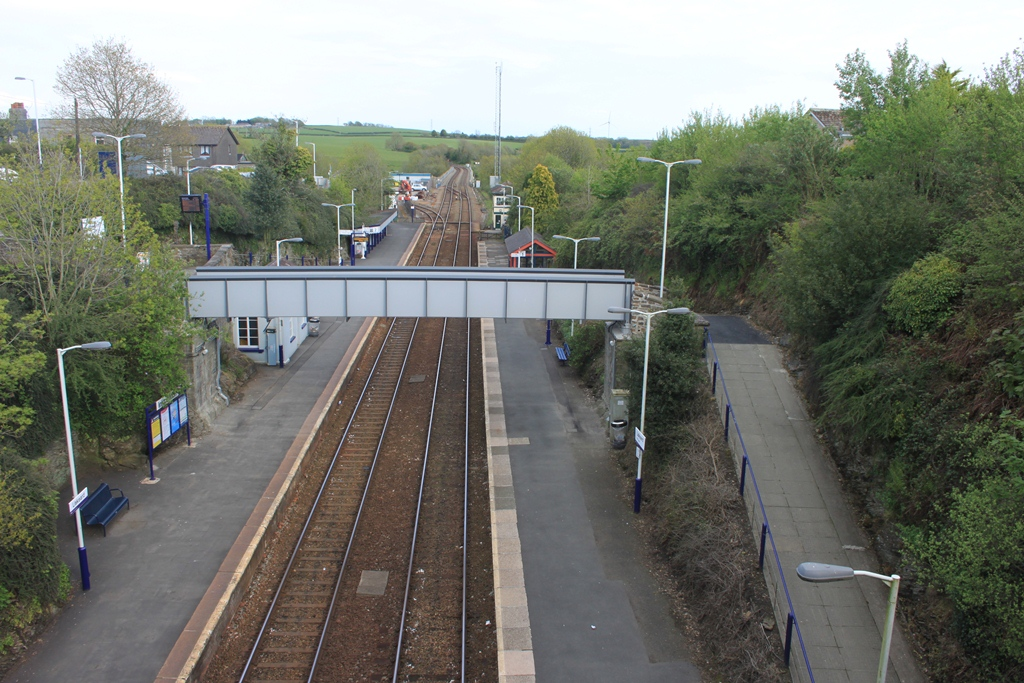 The new footbridge at Liskeard railway station which was erected in 2013. This view is looking eastwards from the road bridge.